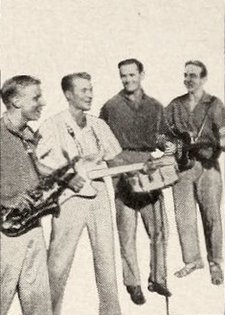 The Four Preps from the 1959 Gidget movie poster